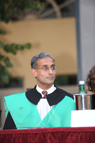 Prabhakar Raghavan accepting a Laurea honoris causa from the University of Bologna in 2009